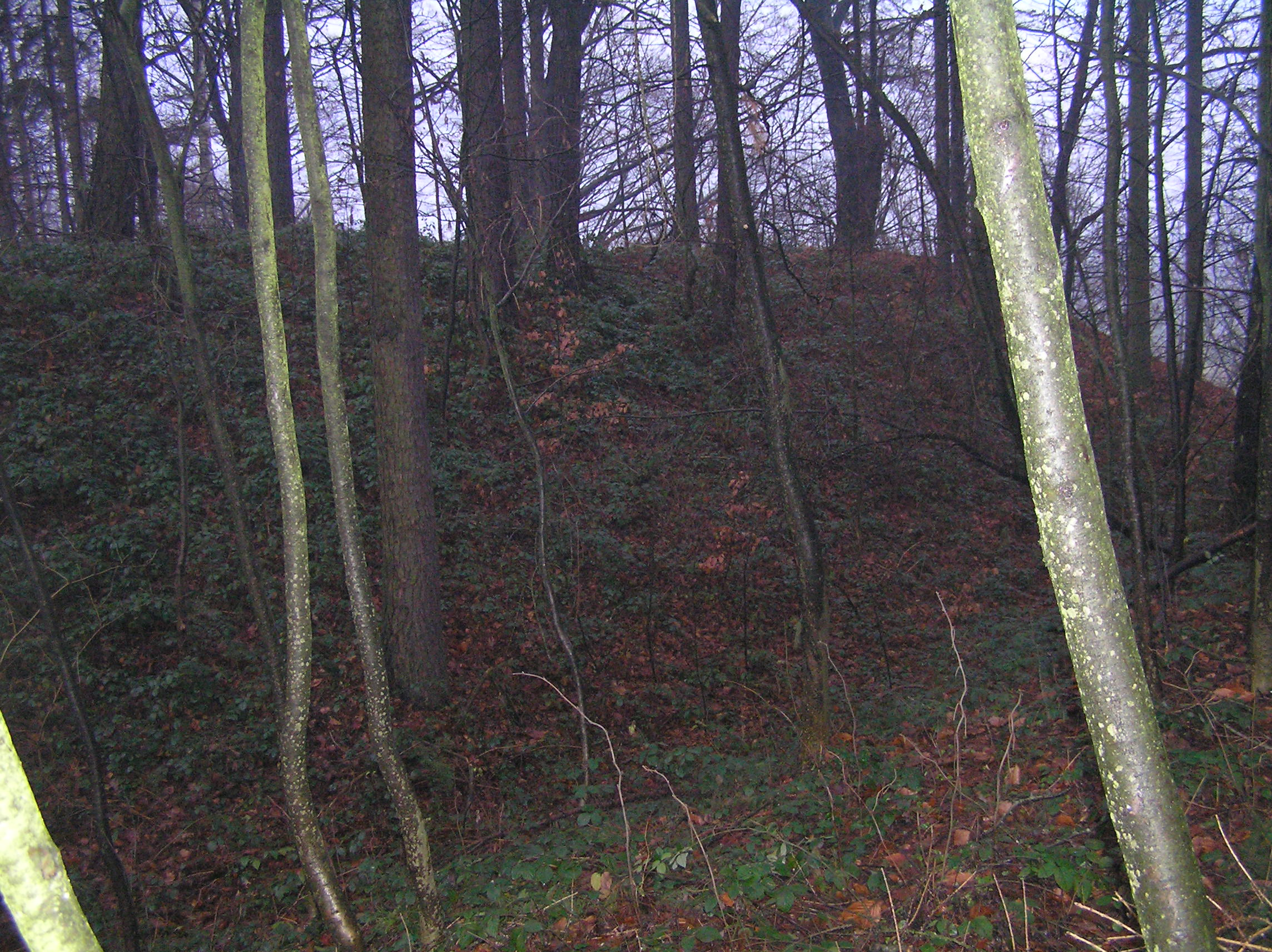 Darebnický hrad is the ruin of the castle near the town Choceň in the Czech Republic